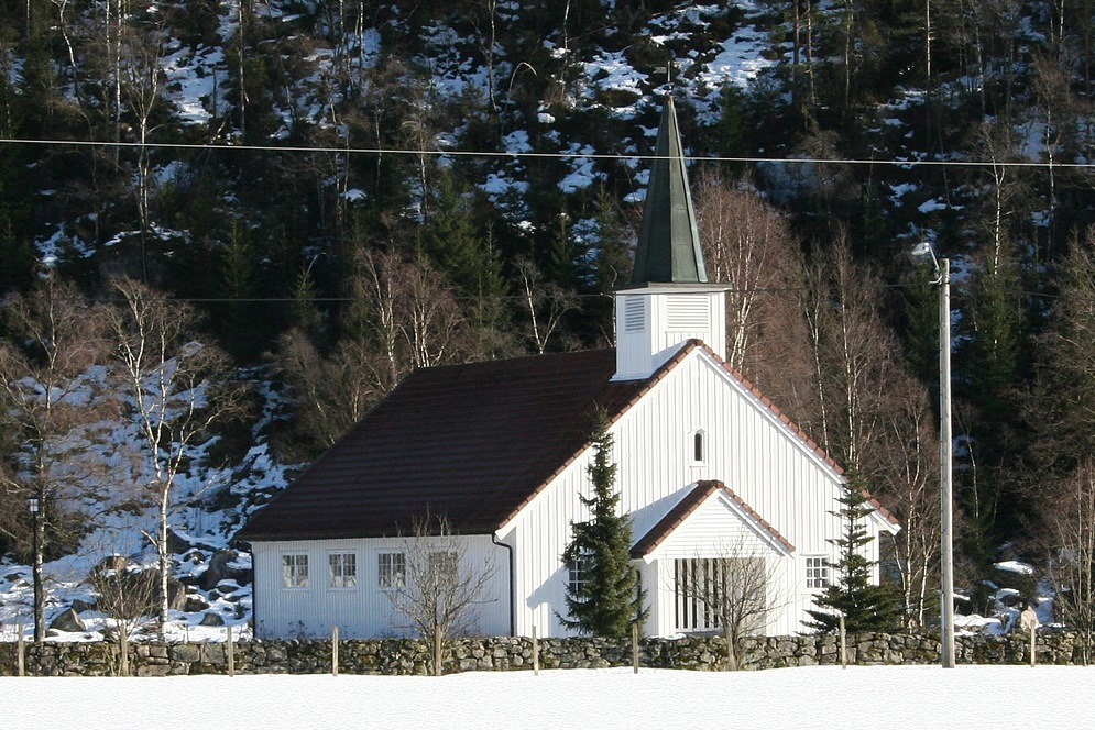 Gyland kapell. Foto: Hege Søstrand Bu, fra Kulturminnebilder.no.